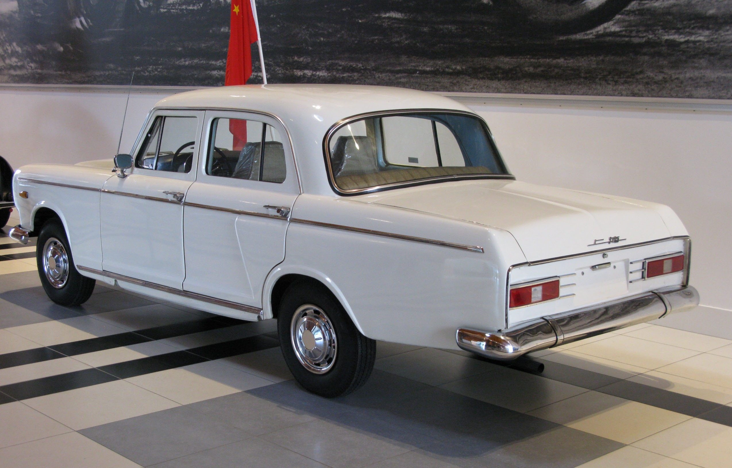 1986 Shanghai SH760